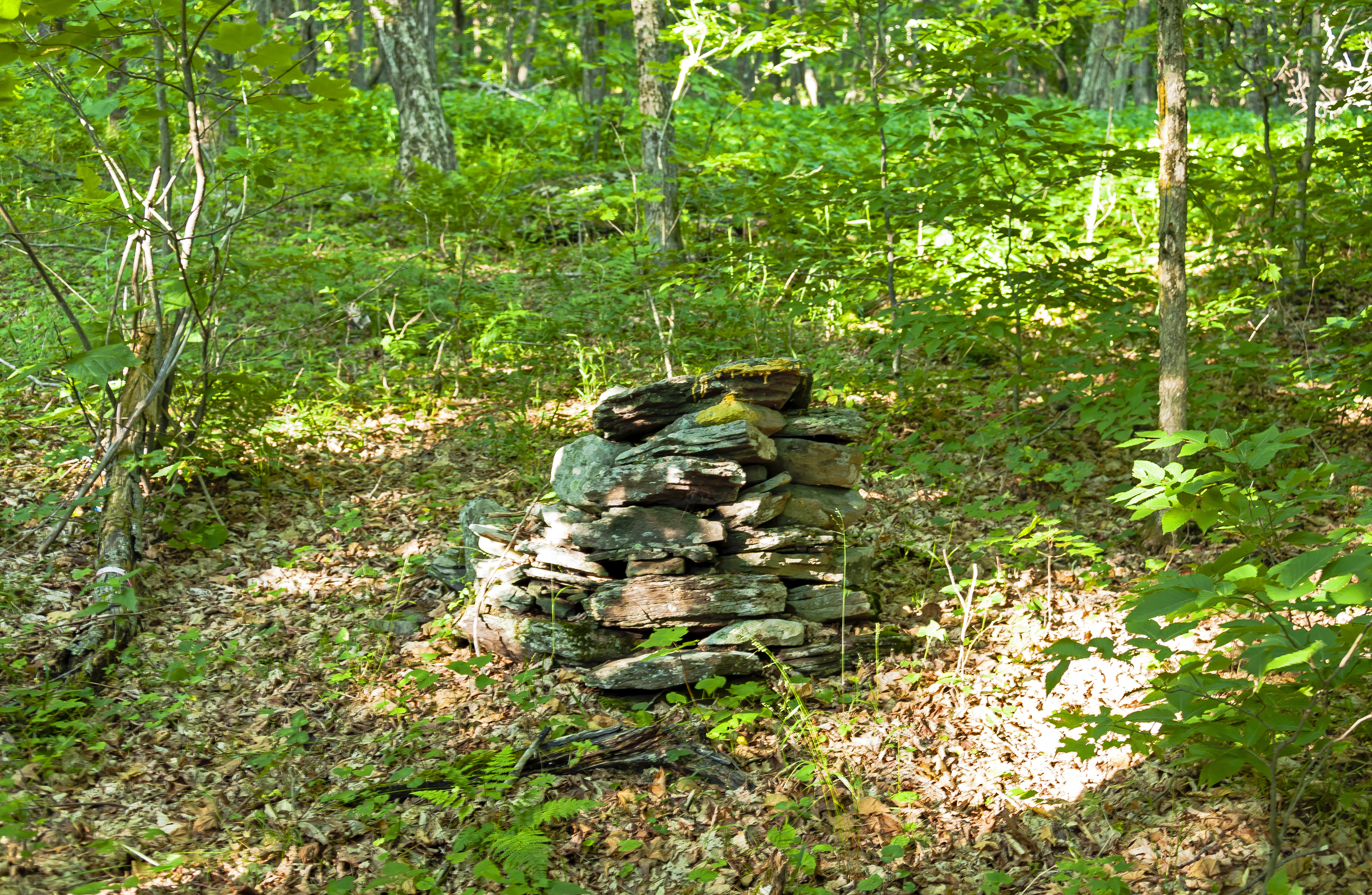 Rock cairn marking (inadvertently, anyway) the tripoint of New York's Delaware, Greene and Ulster counties along the south ridge of Halcott Mountain in the Catskills. The lower left is in Delaware County's town of Middletown. The lower right is in Shandaken, in Ulster County, and the area at the top of the image is in the Greene County town of :Lexington. Yellow splotch of paint on top indicates the intended purpose, to mark the corner of state land in Ulster County. It also marks a corner of the Catskill Park Blue Line, which at this point follows the Delaware County line